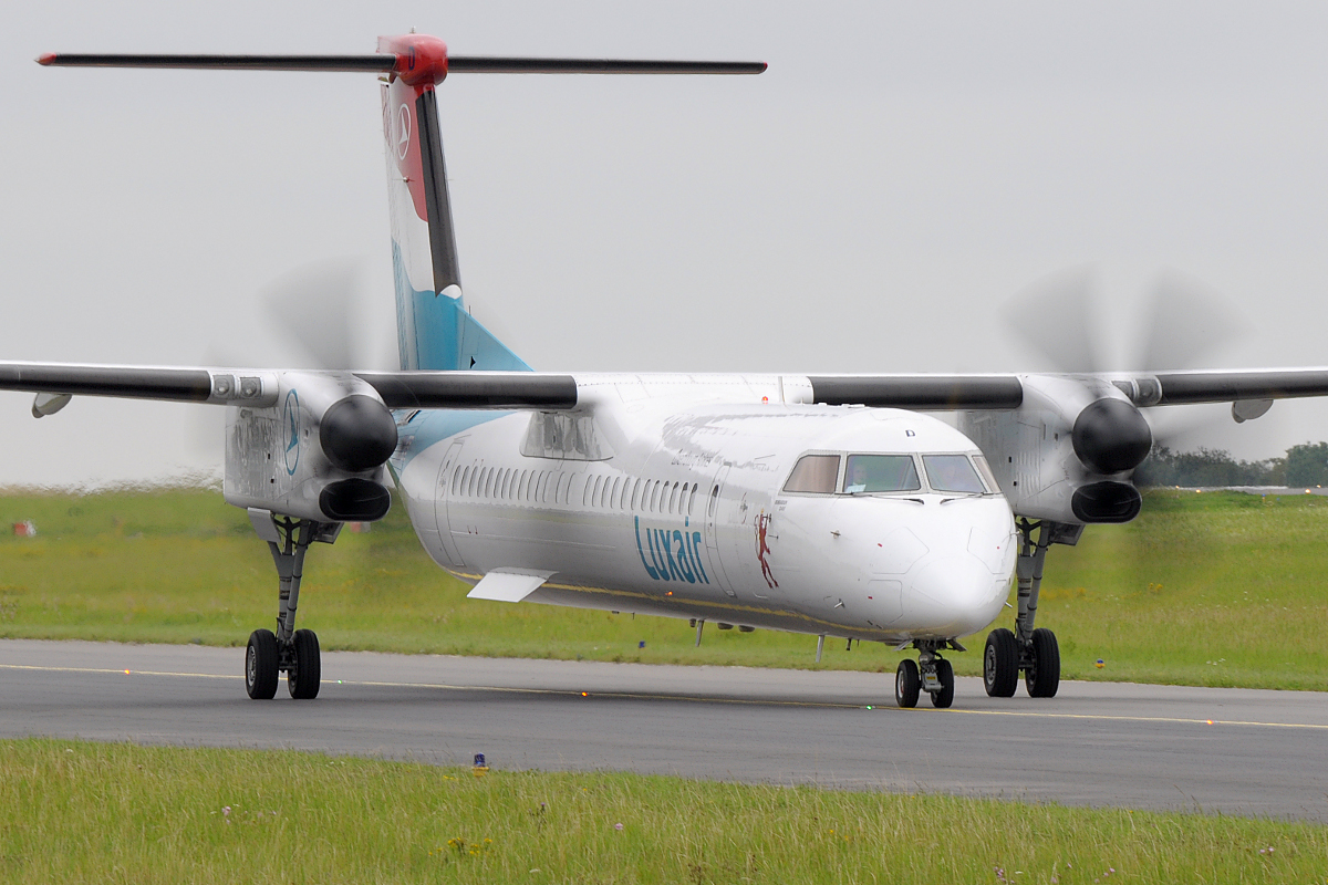 Luxair Dash 8 taxiing in Luxembourg-Findel Airport